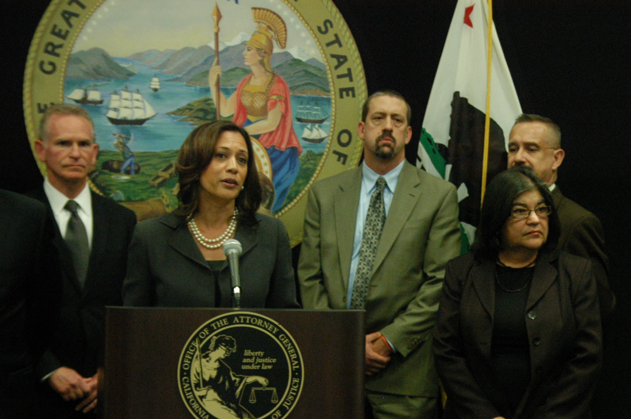 Attorney General Kamala Harris announces the creation of a Mortgage Fraud Strike Force to Protect Homeowners. Los Angeles – May 23, 2011.